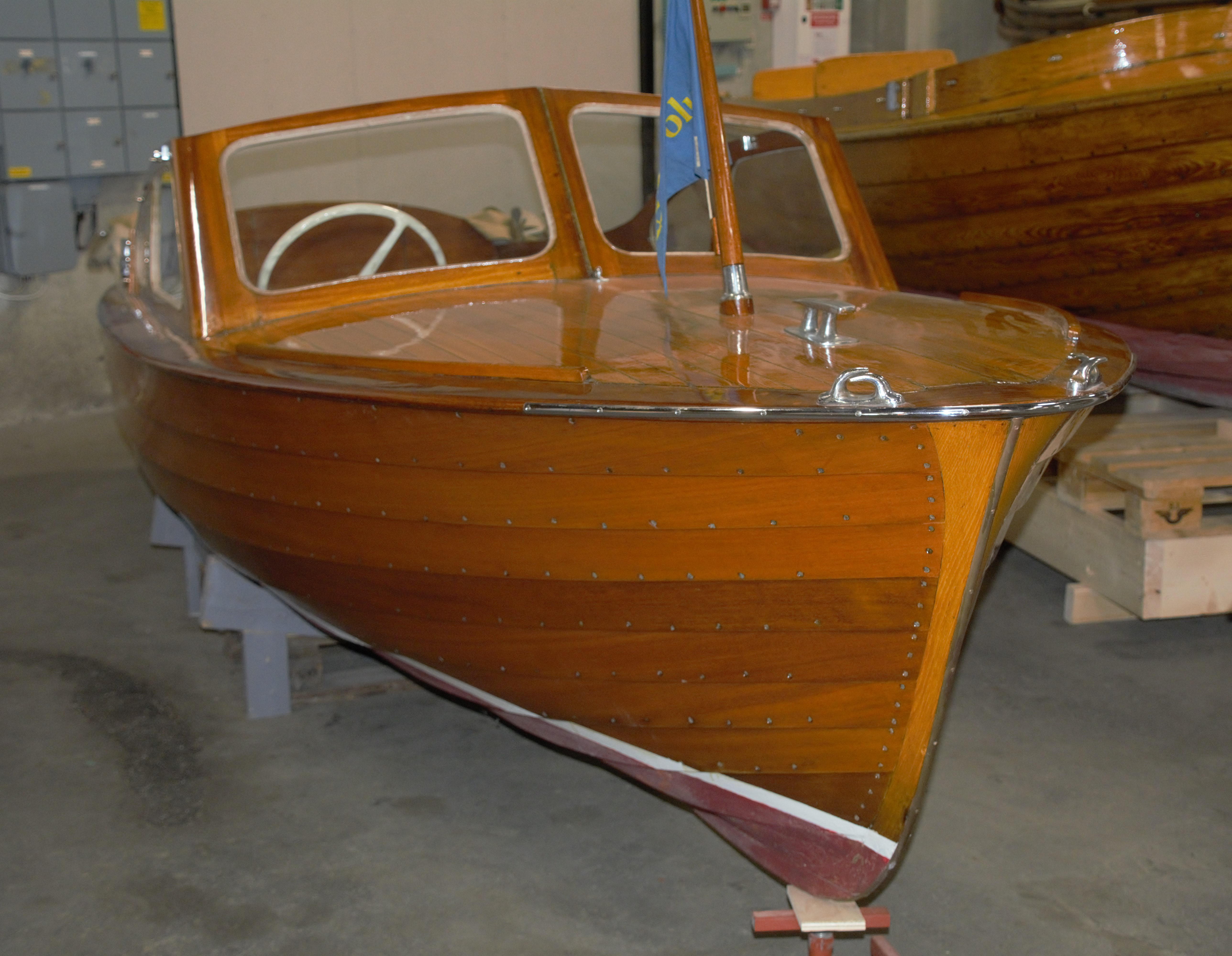 Electrolux Camping boat, built 1958. 5,12 meter long, 1,72 meter wide, Mahogany and Oregon pine. Sjöhistoriska museet, Båtmagasinet på Rindö